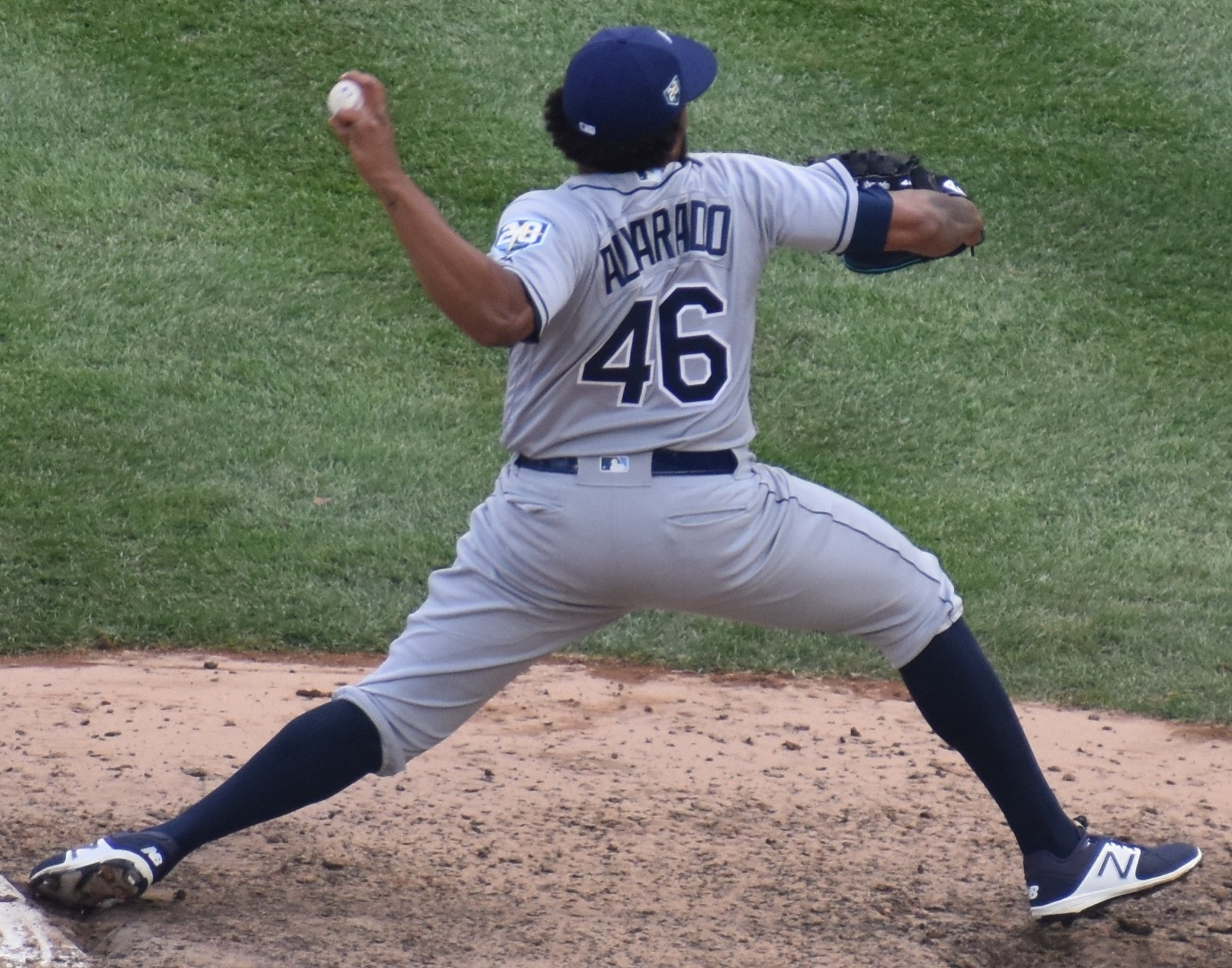 José Alvarado delivers a pitch on April 4, 2018 at Yankee Stadium